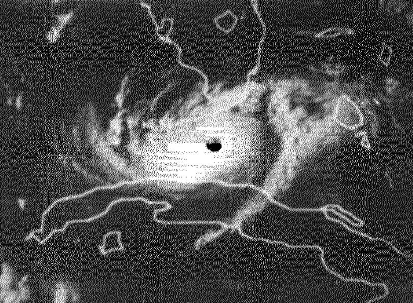 Major Hurricane Donna making landfall in the Florida Keys as a Category 4 Hurricane on Saturday September 10th, 1960. Satellite image of Hurricane Donna from the NHC